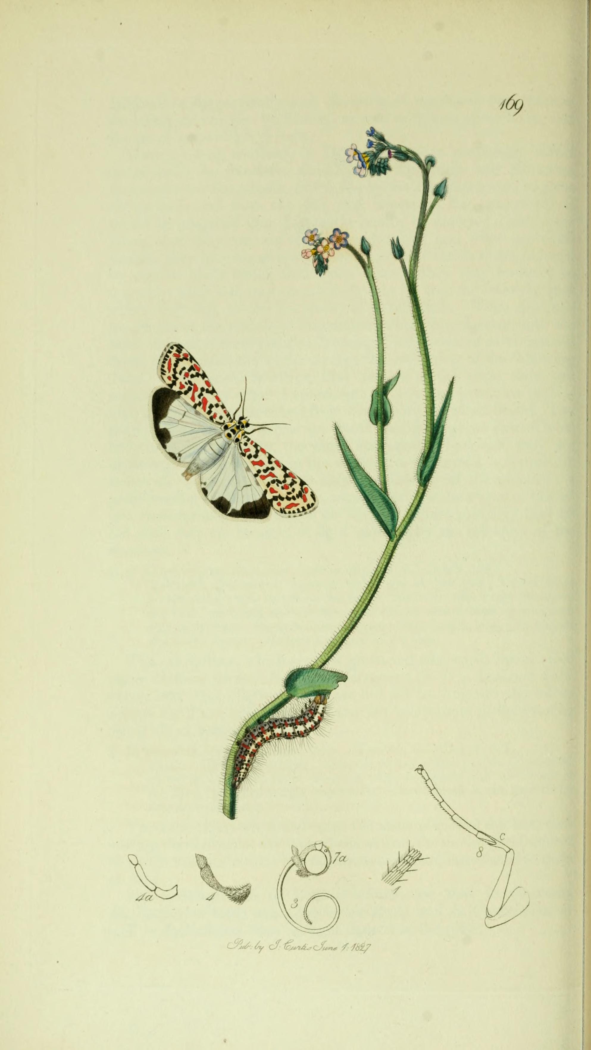 An illustration from British Entomology by John Curtis. Deiopeia pulchra or Utetheisa pulchella (Crimson-speckled Footman).